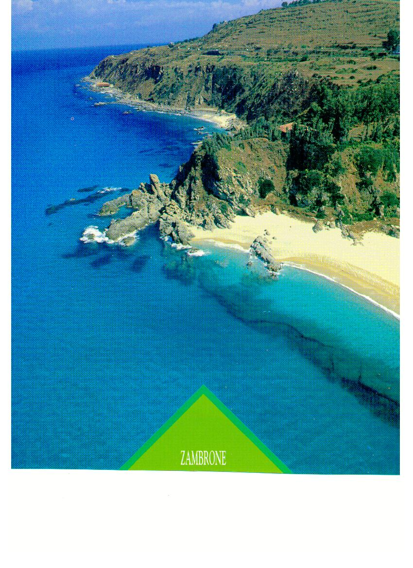 Punta Capo Cozzo,Zambrone(vv),Calabria,Italy